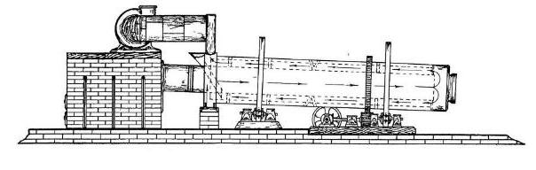 Rotary dryer